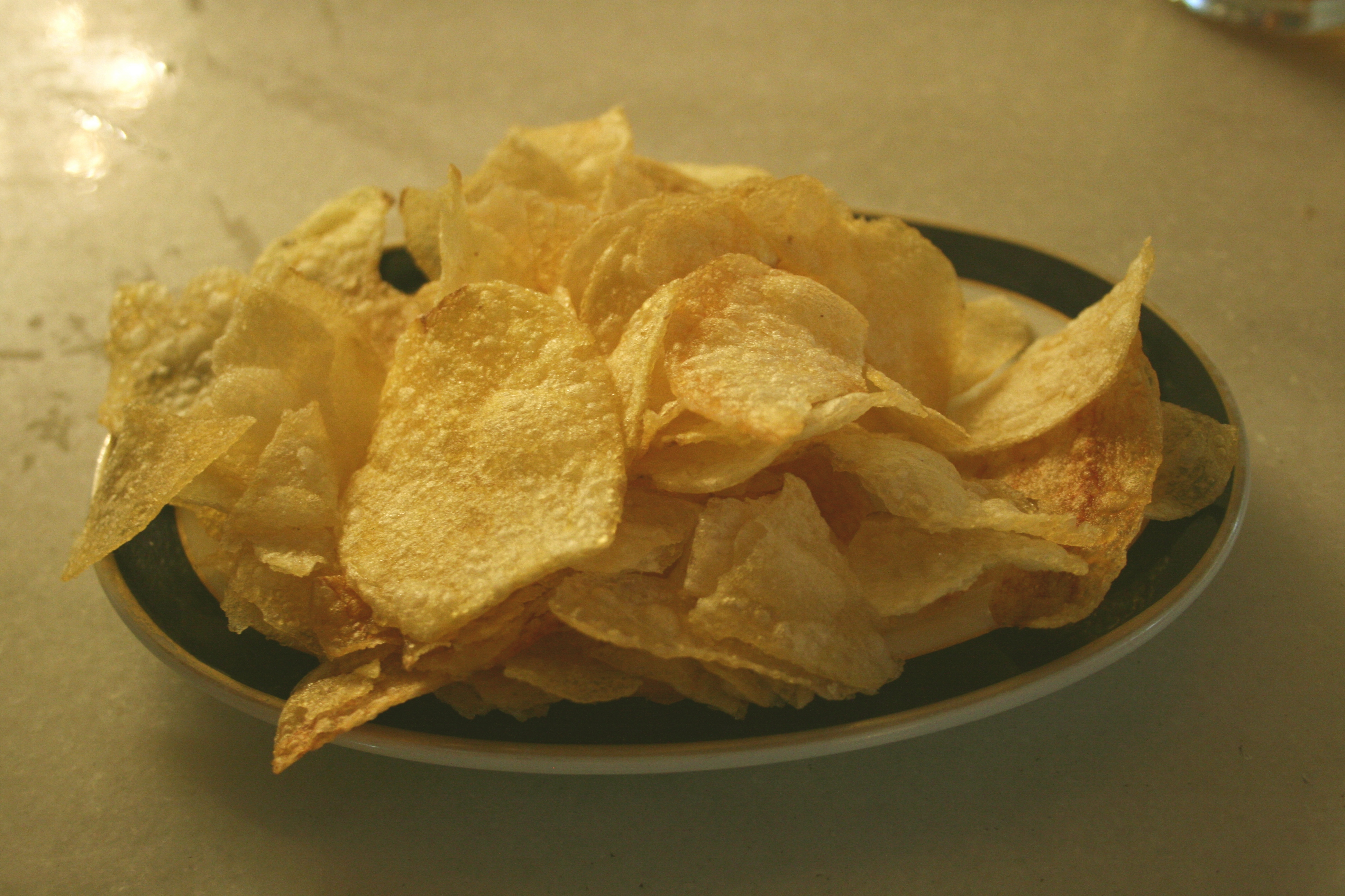 Potato chips